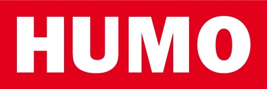 The logo of Belgian magazine HUMO.